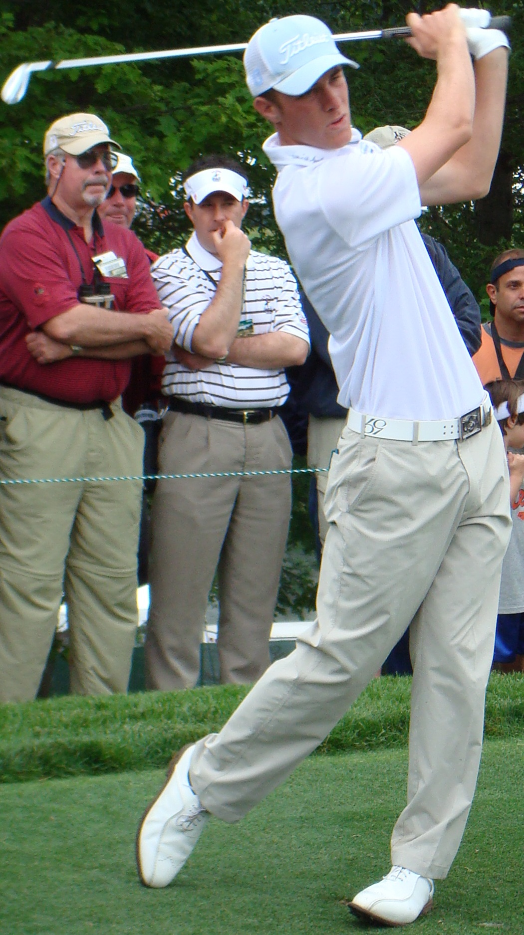 Drew Kittleson tees off during the Tuesday practice round of the 2009 US Open.